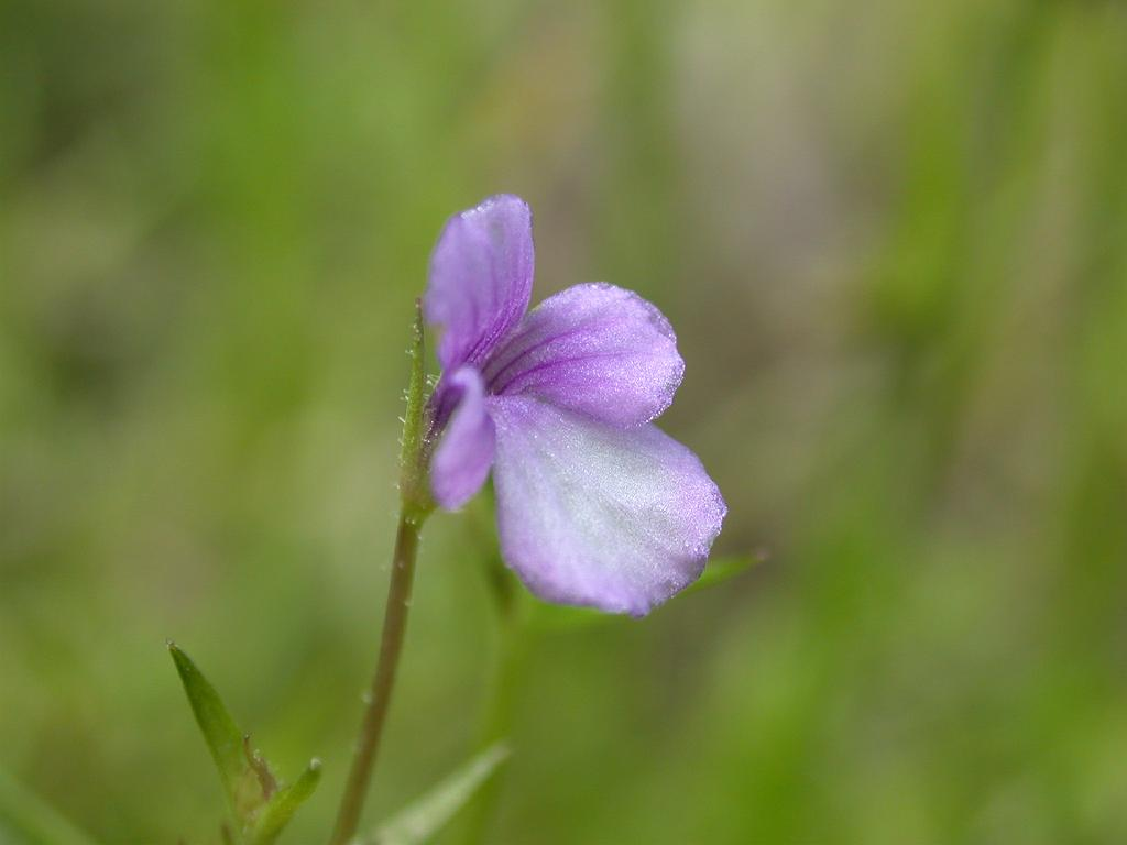 Deinostema violaceum(Scrophulariaceae) Japanese name:Sawatougarasi Date;2007,10,15;Outou,Tanabe city, Wakayama prefecture, Japan Author;Keisotyo